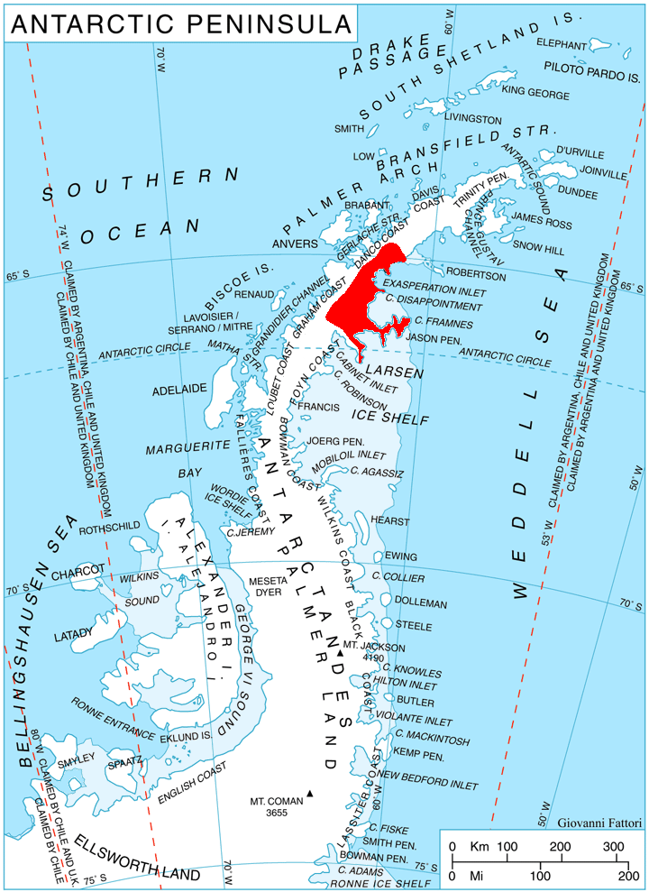 Location of Oscar II Coast, Antarctica.